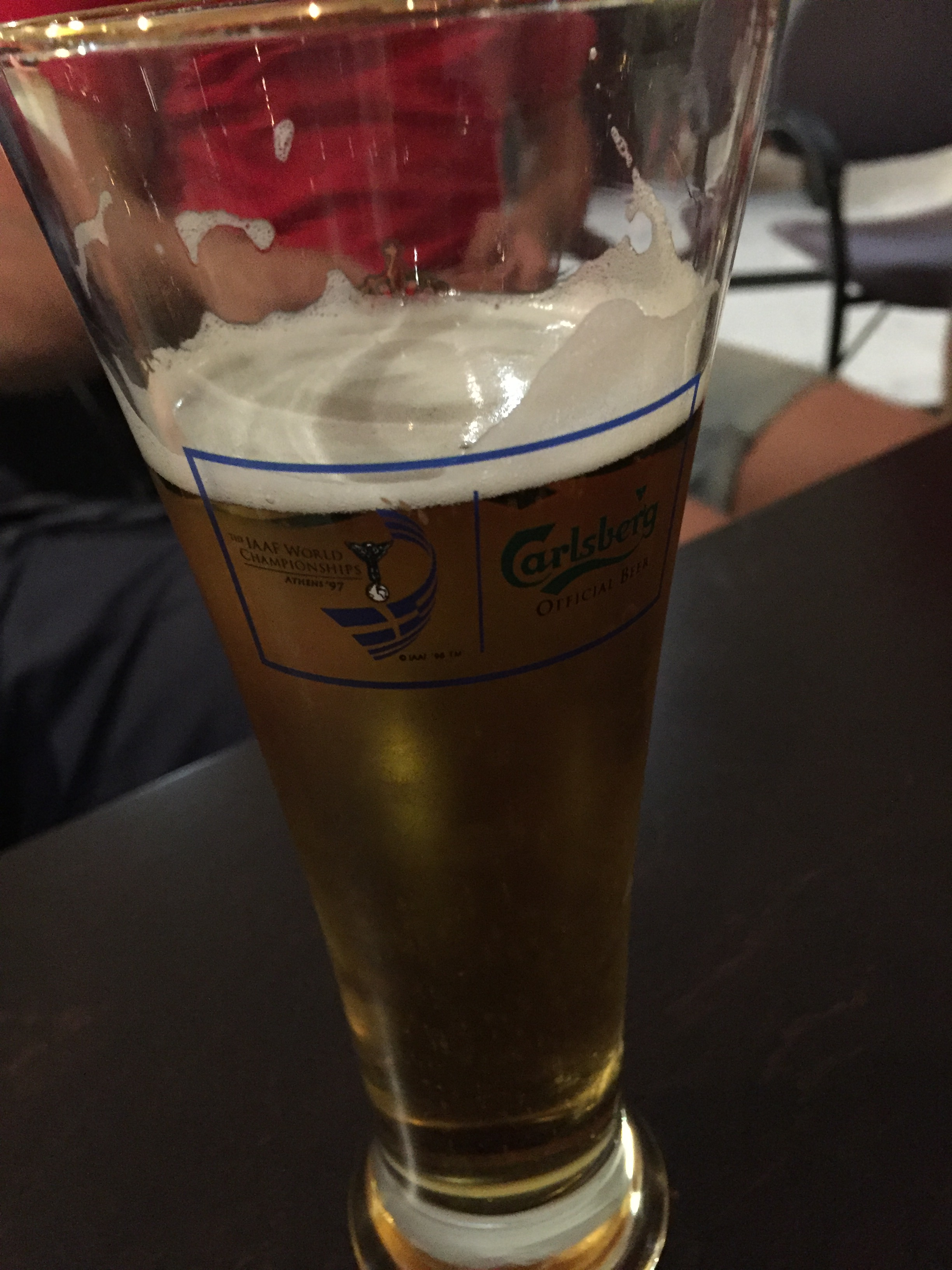 Beer glass 1997 IAAF World Championships